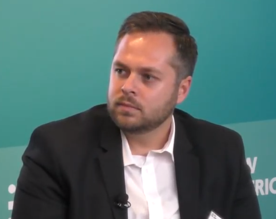 Caption from YouTube: ["On May 31, 2017 New America's Future of Property Rights - hosted Princeton's Innovations for Sustainable Societies to launch a series of cases regarding innovations in land tenure and formalization. In this talk, Dr. Leon Schreiber (Senior Research Specialist, ISS) and Maya Gainer (Senior Research Specialist, ISS) and Michael Graglia (Future of Property Rights Initiative, New America) discuss the ISS cases presented earlier. Please let us know how you are using these cases via Twitter @NewAmericaFPR or "] (20:43)